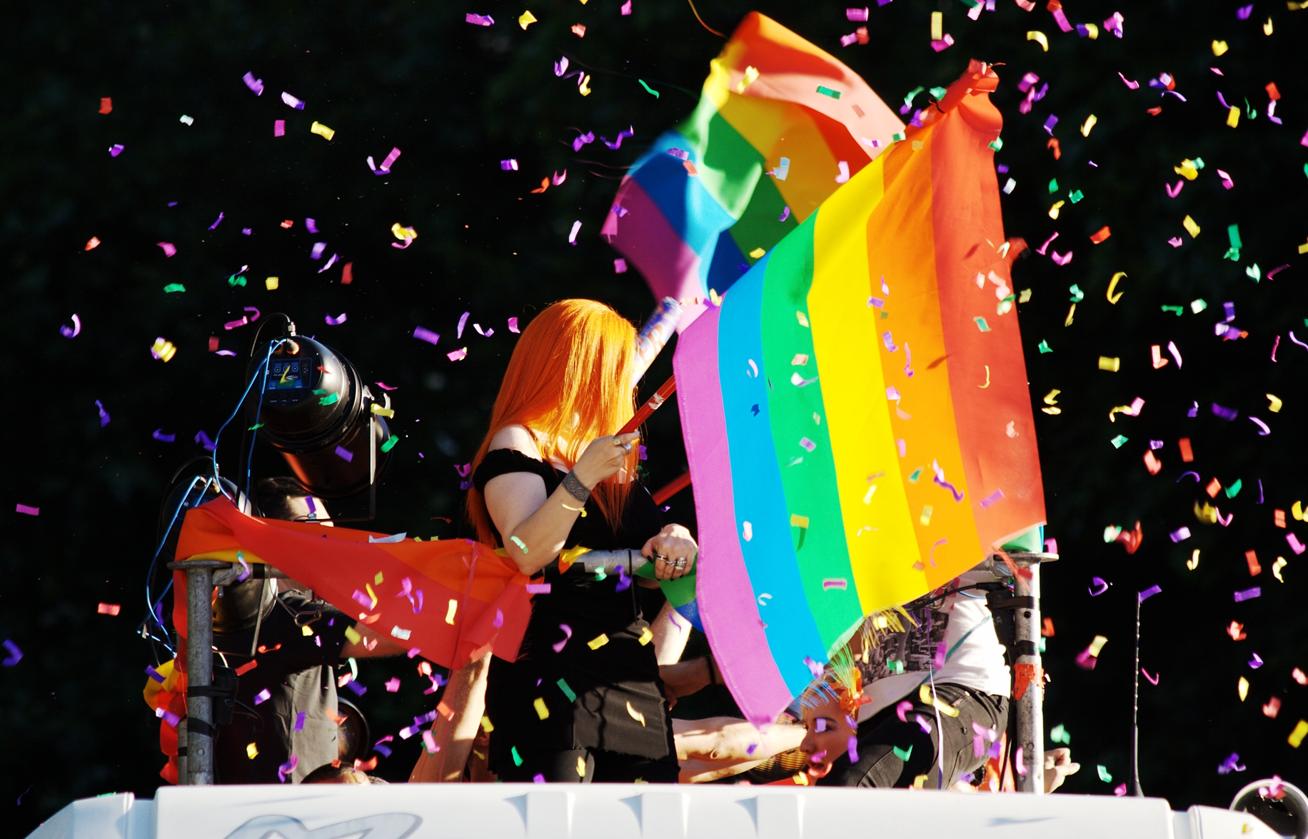 Alaska, singer famous in Spain and Latin America, at the streets of Madrid (Spain) during the 2008 LGBT pride parade.